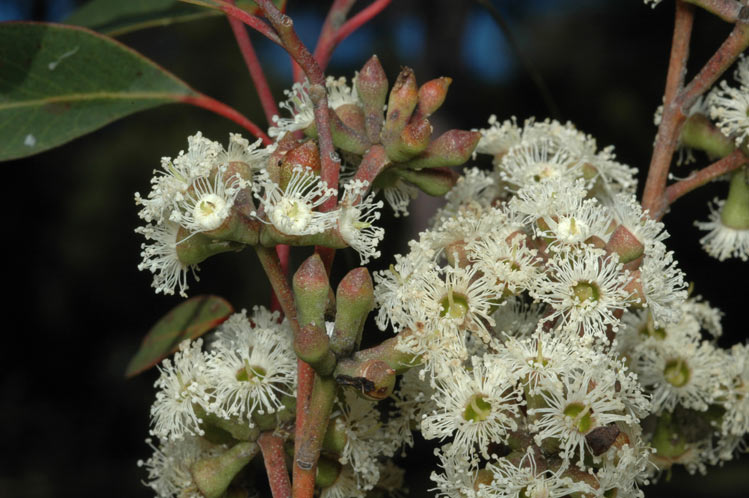 Flower buds and flowers of Eucalyptus tindaliae in the Australian National Botanic Gardens